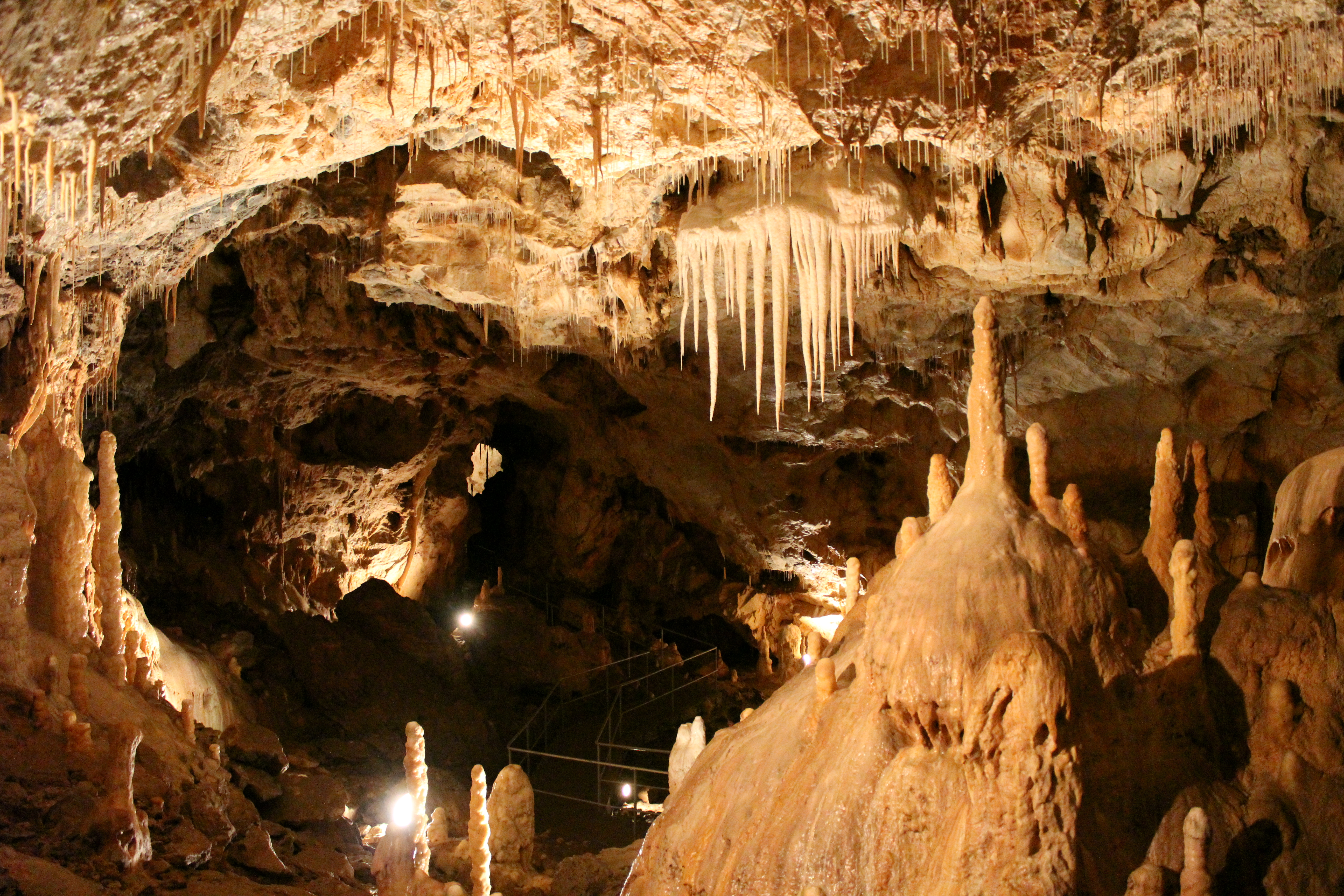 Bear Cave (Chișcău, Romania).